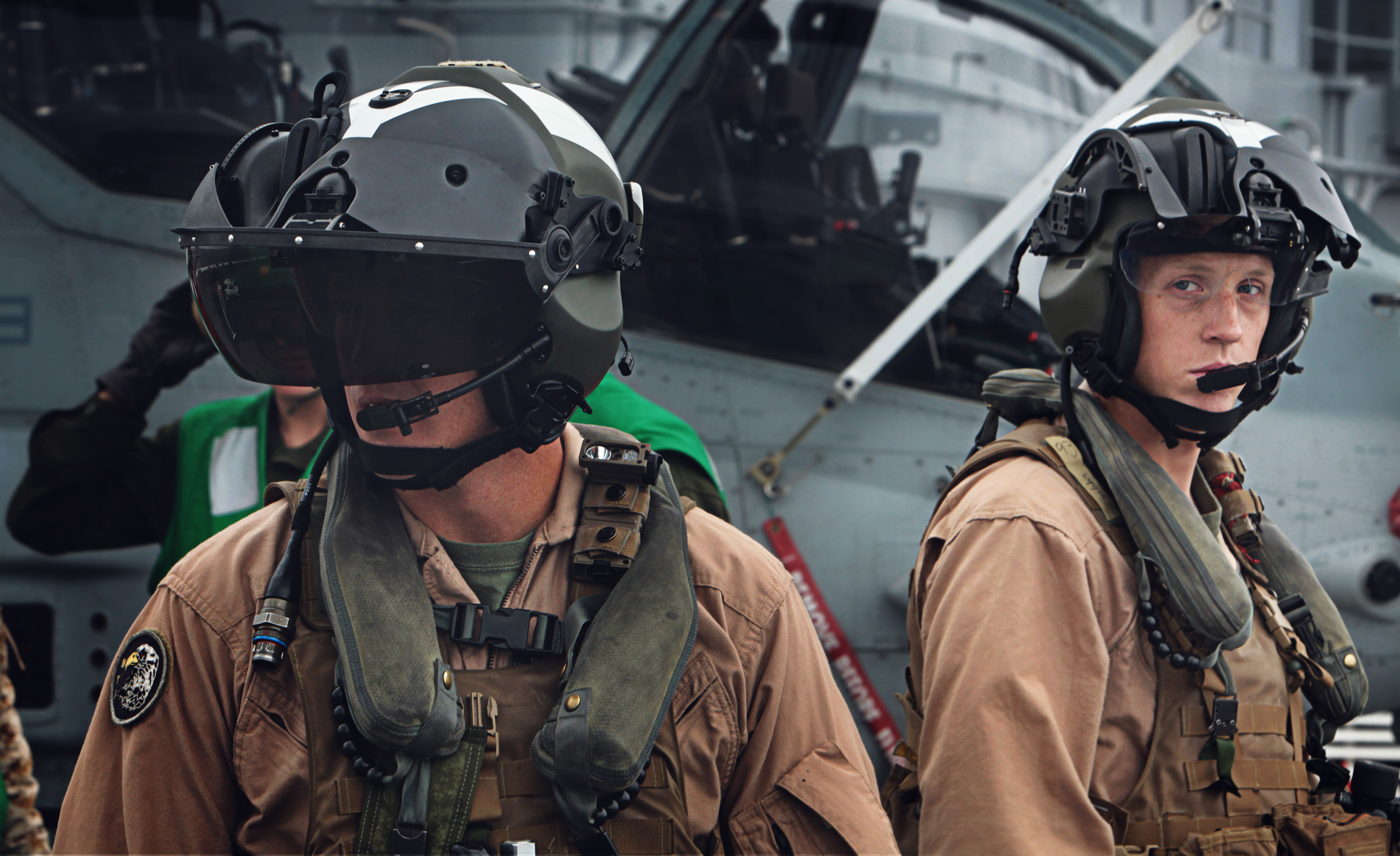 AH-1Z "Viper SuperCobra" pilots 1st Lt. Michael "Shitshow" Tetreault and Capt. Travis Patterson aboard USS Makin Island prepare to fly Oct. 5. The pilots (originally from Marine Light Attack Helicopter Squadron 367, AKA "Scarface") serve with the 11th Marine Expeditionary Unit's (MEU) Aviation Combat Element (ACE). The 11th Marine Expeditionary Unit is the first amphibious landing force to embark Makin Island, which set sail for San Francisco Oct. 1 to participate in the city's 2010 Fleet Week. There the 11th MEU plans to showcase to the public the Marine Corps' men and women, its aircraft and equipment, and its ability to conduct missions that span the overlapping spectrums of peace and combat, from disaster relief to war. Tetrealt is from Killingly, Conn., and Patterson is from Austin, Texas. (Official U.S. Marine Corps photo by Cpl. Preston Reed)